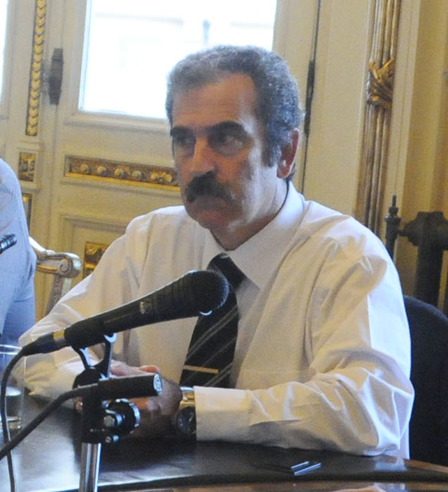 El Jefe de Gabinete de Ministros, Jorge Capitanich recibió en el Salón Norte de Casa Rosada, a ocho intendentes santacruceños, en Buenos Aires, 16 Diciembre 2013. Foto Pablo Pinto, prensa Jefatura de Gabinete.